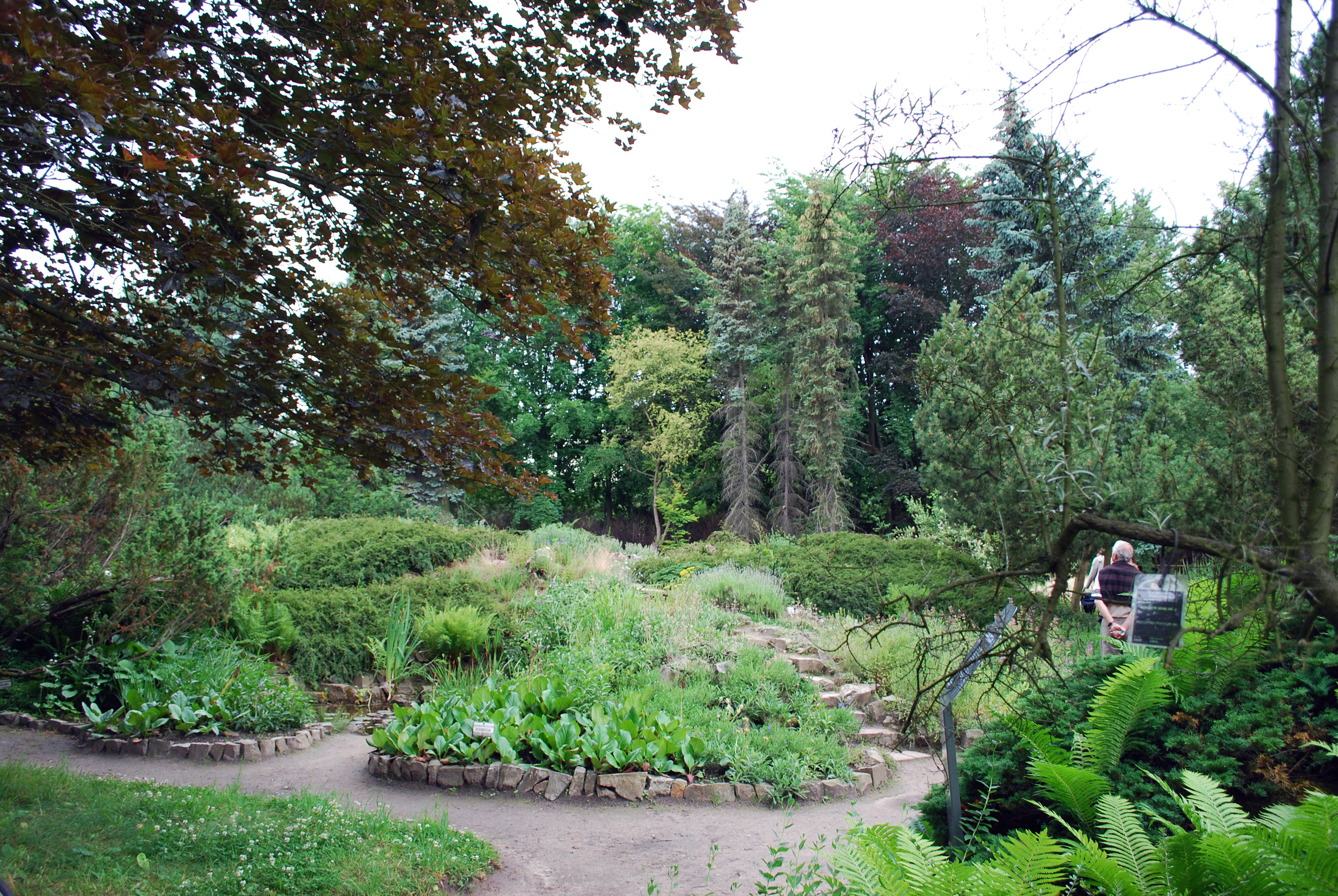 Alpinarium in Arboretum in Rogow